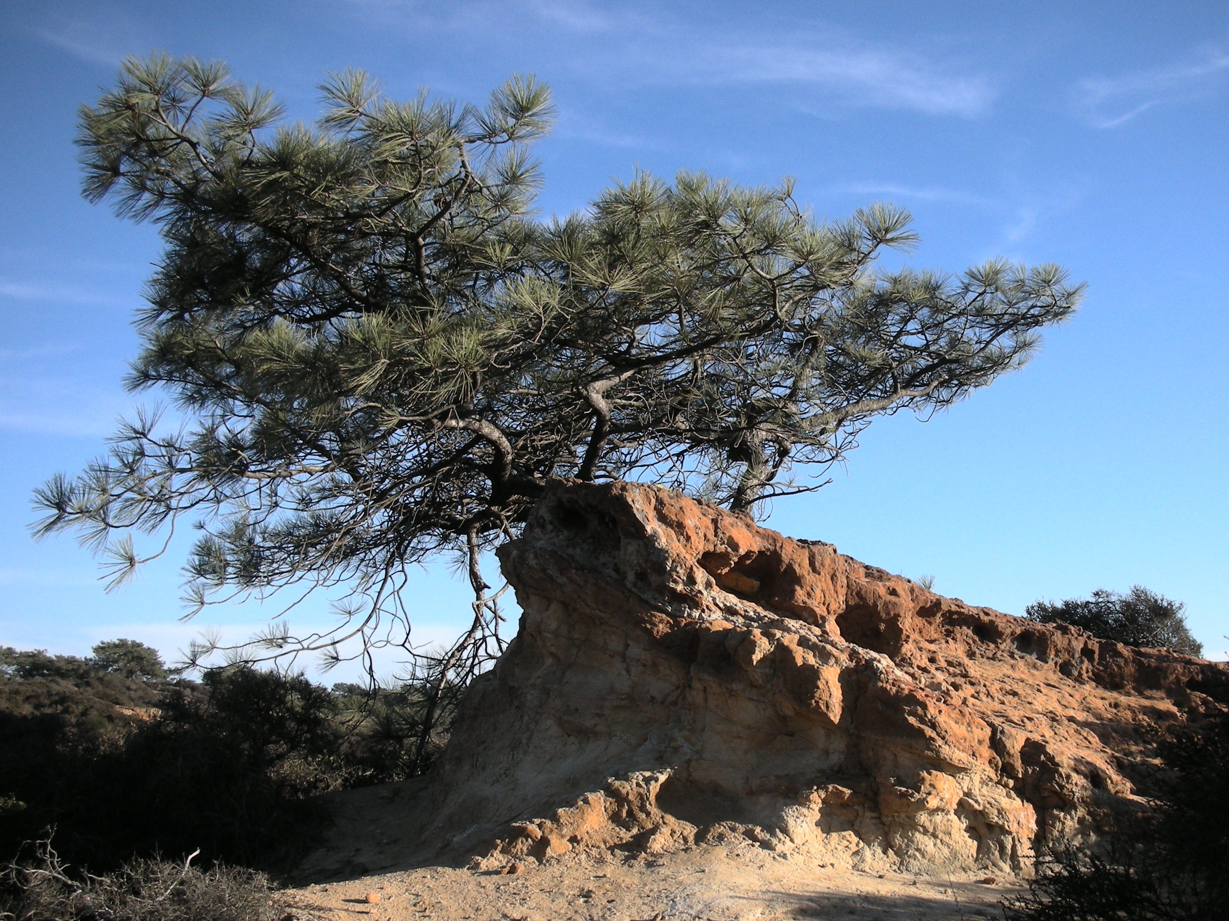 Pinus torreyana — at Torrey Pines State Reserve, La Jolla, San Diego, California.